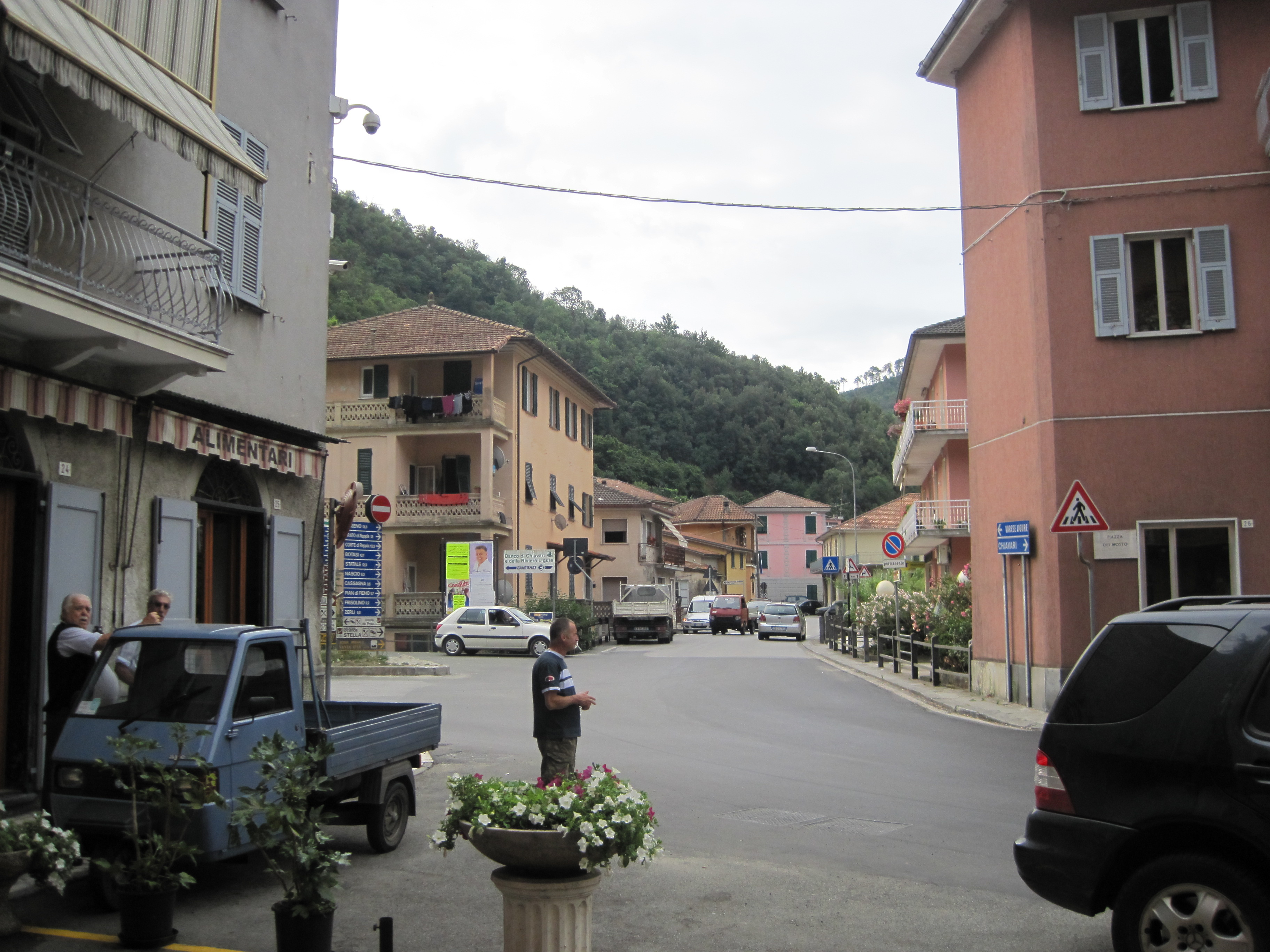 The town center of Conscenti, a frazione in the Italian municipality of Ne.